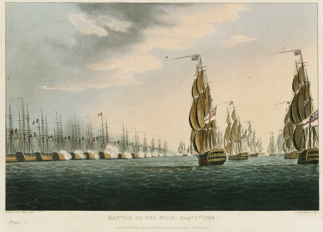 Battle of the Nile, Augt. 1st 1798: The British fleet bears down on the anchored French.